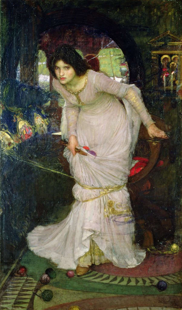 The Lady of Shalott looking at Lancelot